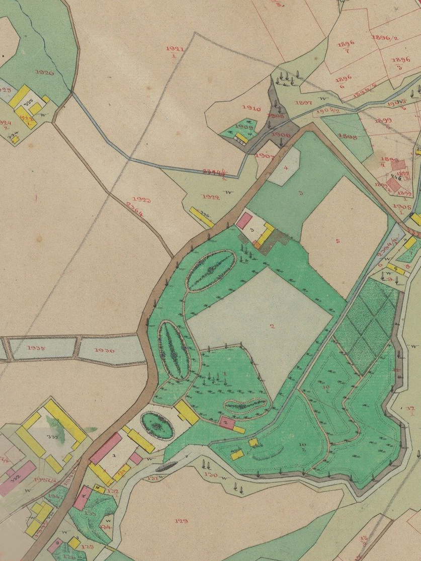 Park an manor in Jasienica Rosielna on a map from 1851